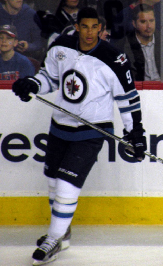 Winnipeg Jets forward Evander Kane prior to a National Hockey League game against the Calgary Flames.